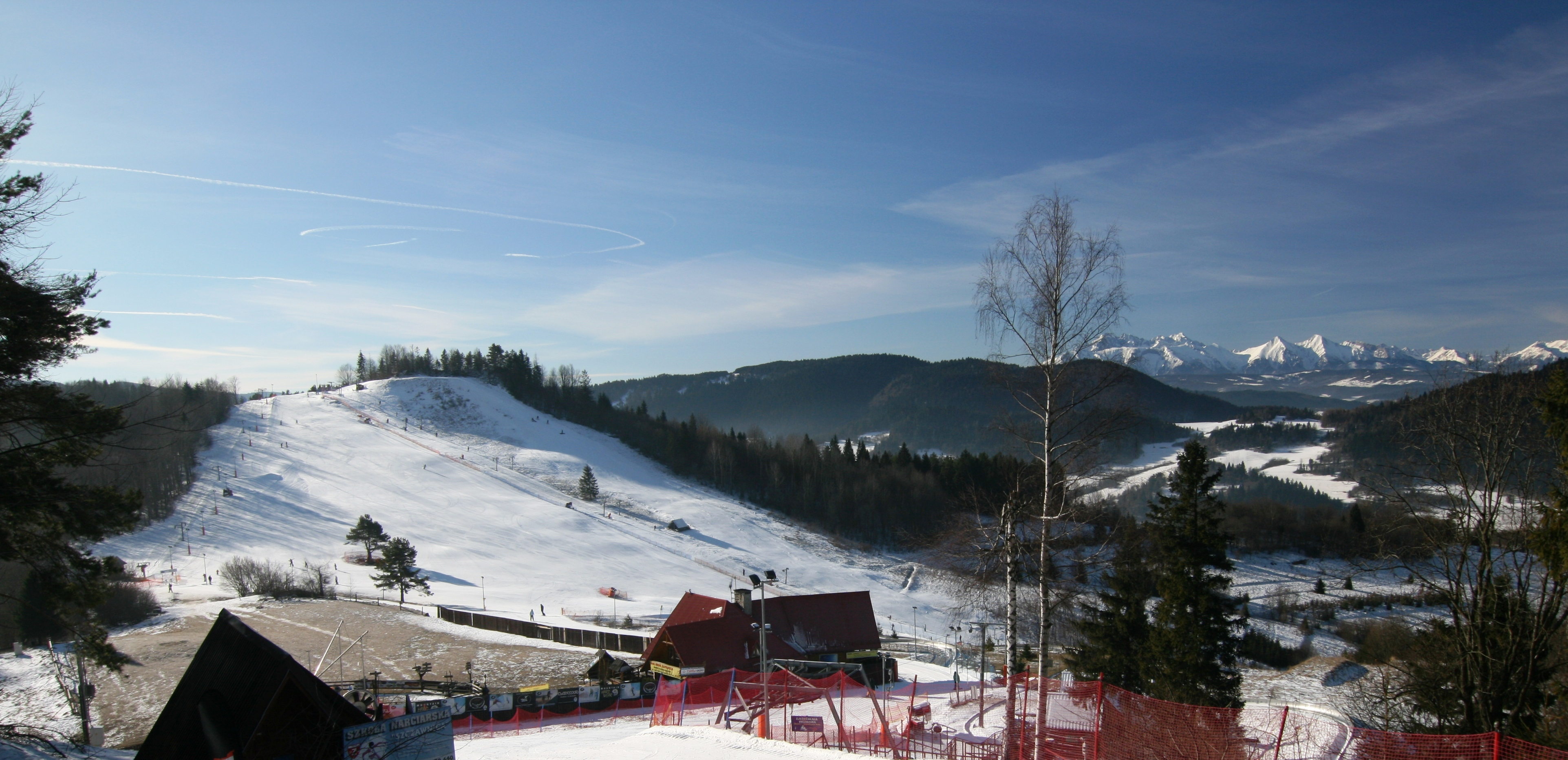 Szafranówka winter view from Palenica - Belianske Tatras in background